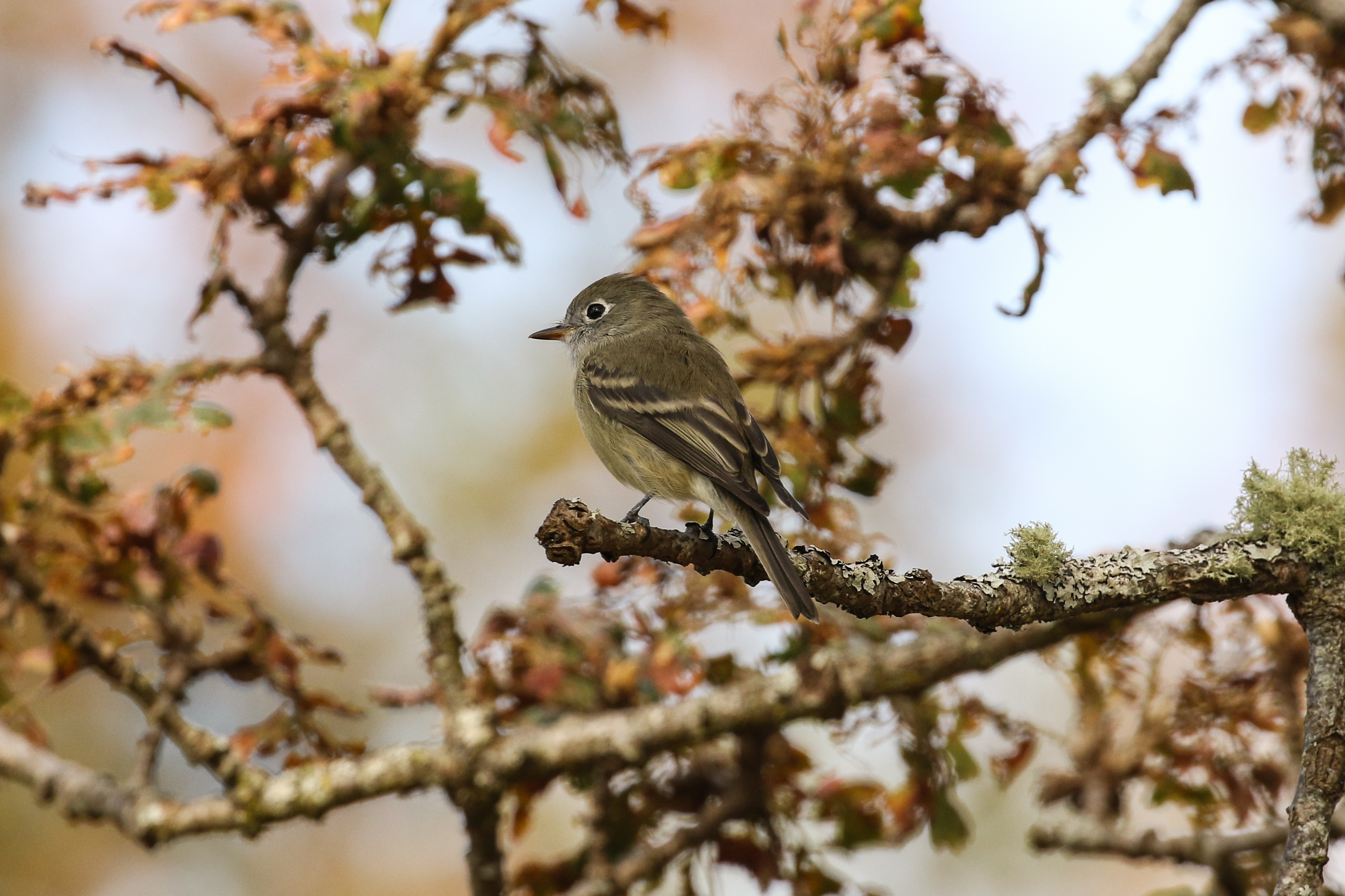 Hammond's Flycatcher Empidonax hammondii, Rocky Point, British Columbia Credit: Blair Dudeck